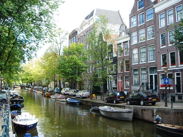 A canal and its surrounding in Amsterdam